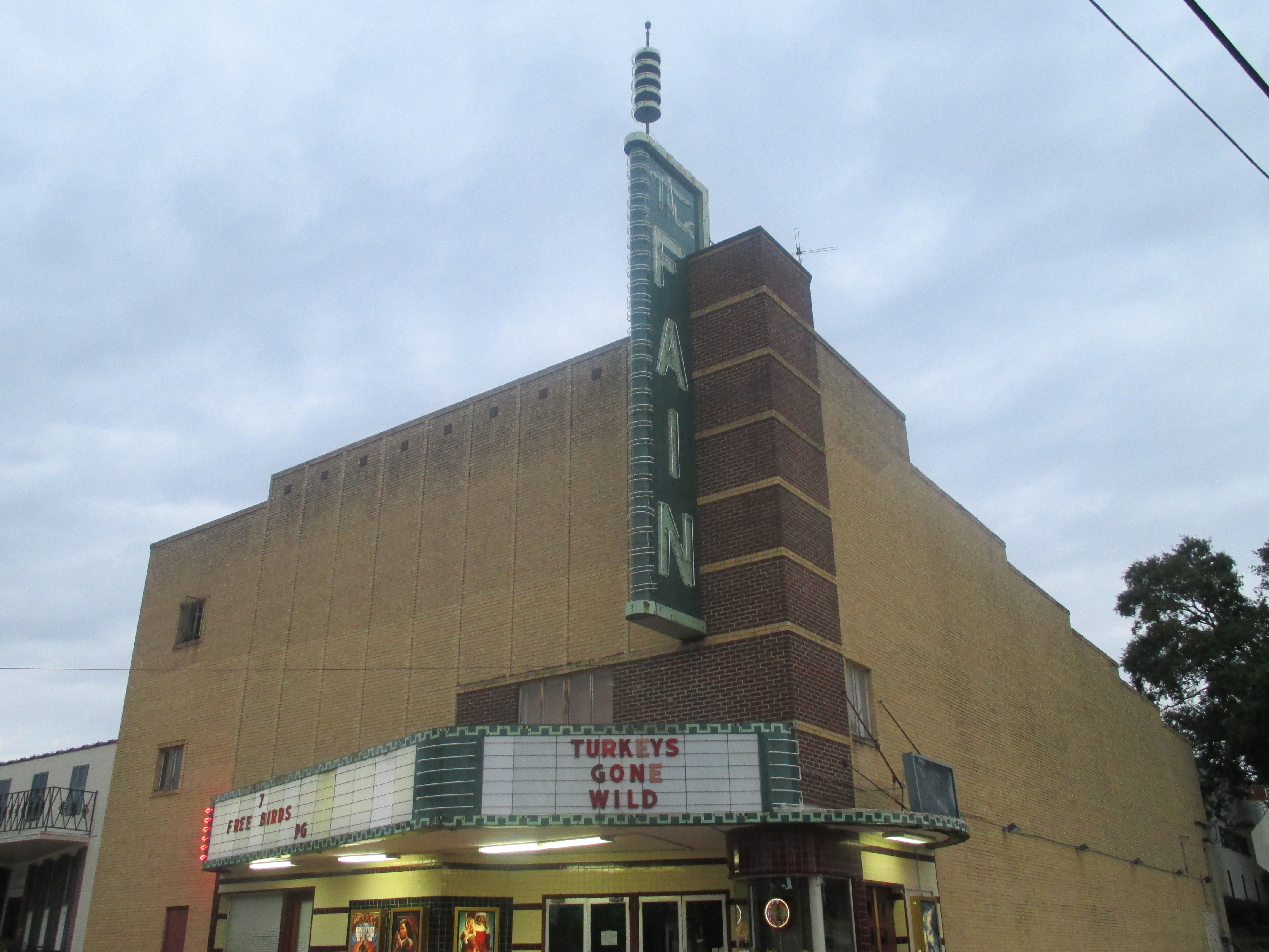 I took photo with Canon camera of Fain Theatre in Livingston, TX.